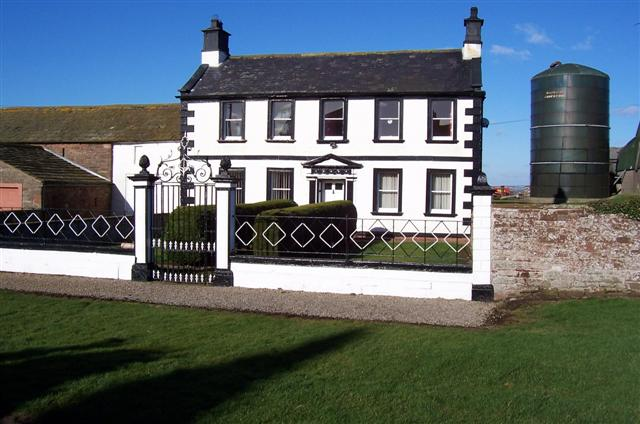 Kirkland Hall Farm. Can't beat classic black and white for a smart appearance.